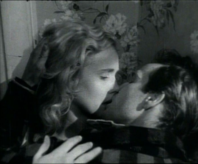 Marlon Brando and Eva Marie Saint in a screenshot from the trailer for the film On the Waterfront.